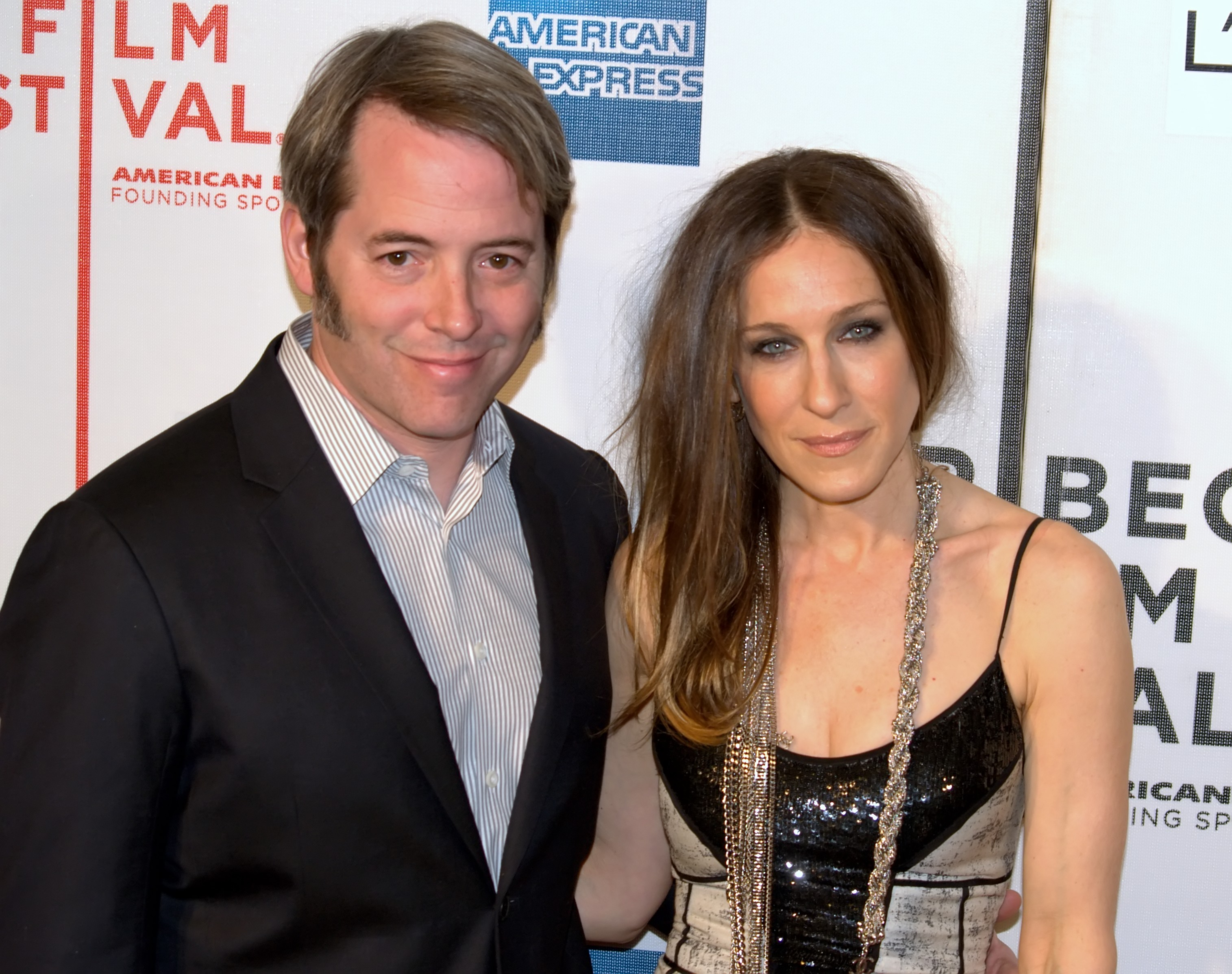 Matthew Broderick and Sarah Jessica Parker at the 2009 Tribeca Film Festival for the premiere of Wonderful World. Photographer's blog post about these photos.